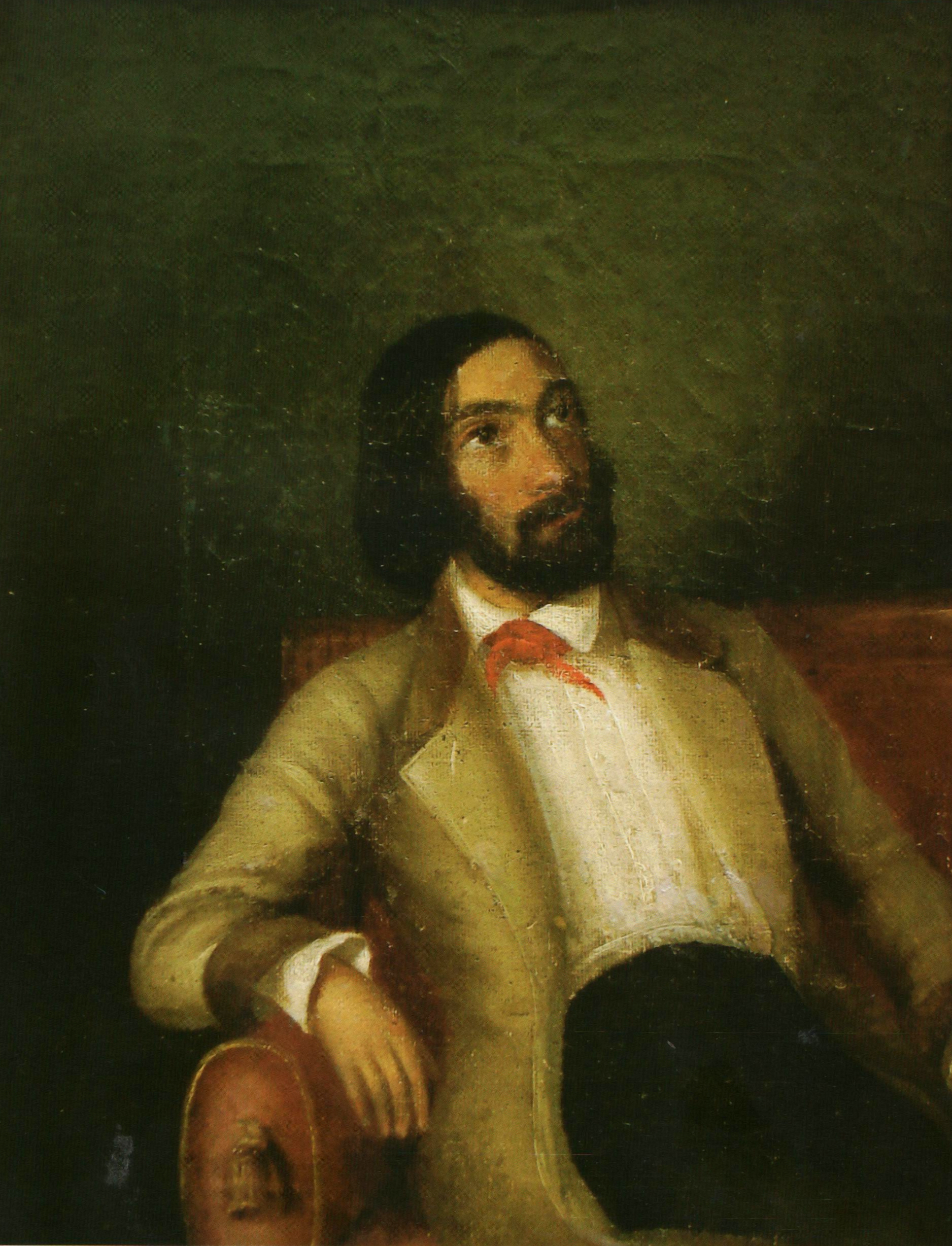 portrait of C. A. RosettiRomână: Portretul lui C.A. Rosetti, ulei/pânză lipită pe lemn, 24.5x19.5cm, semnat stânga jos cu ocru Rosenthal, datat stânga jos cu ocru 1849(?), inv. 886 - Muzeul Municipiului București - secția de Artă